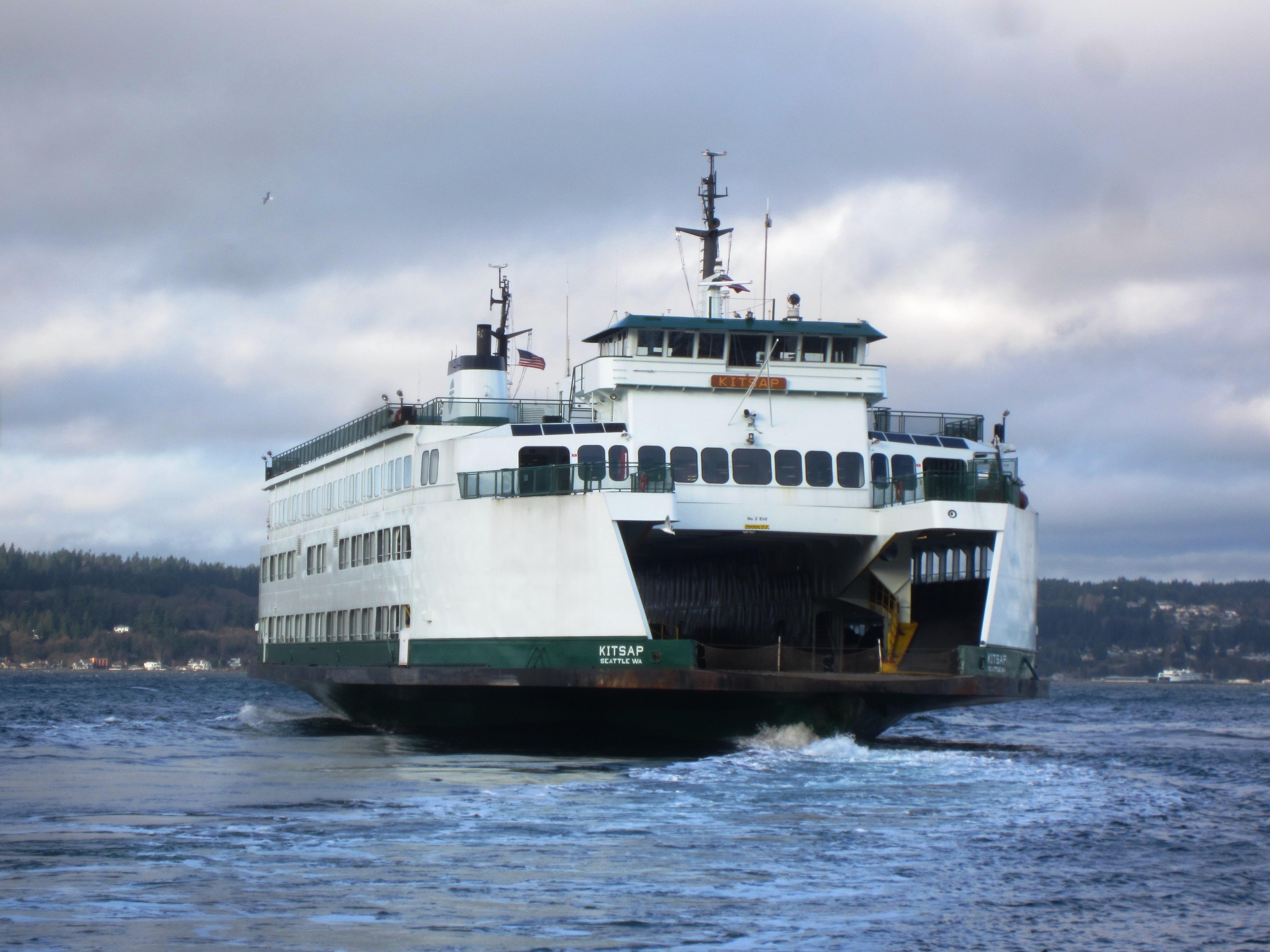 Seen in Mukilteo while filling in for the M/V Tokitae.